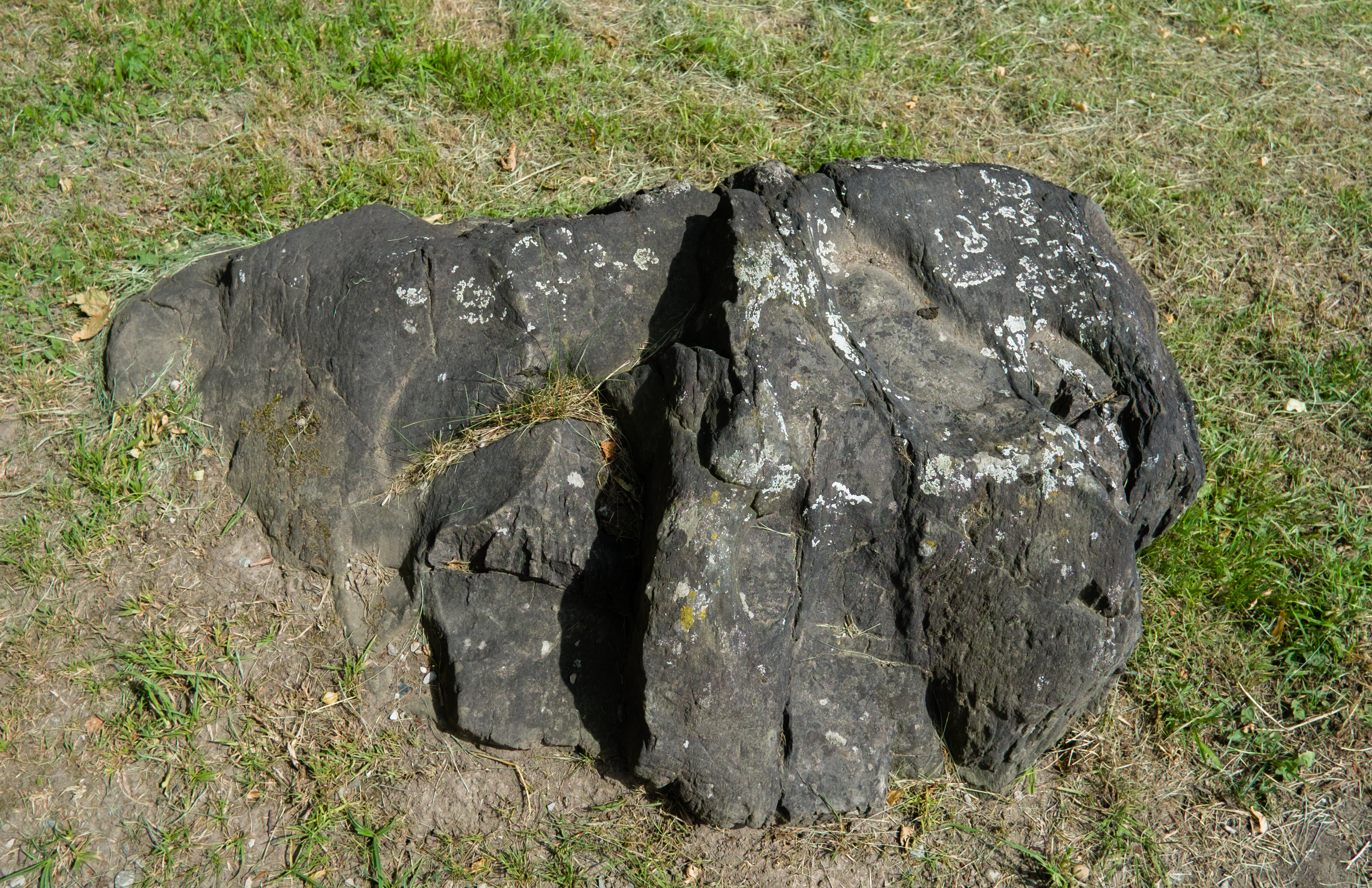 Holy stone Lenzenstein, near the Chapel St Laurentius, probably of pagan origin, people saw the footprint of St. Laurentius on it, Friedrichshafen-Lipbach, county Bodenseekreis, Baden Wurttemberg, Germany